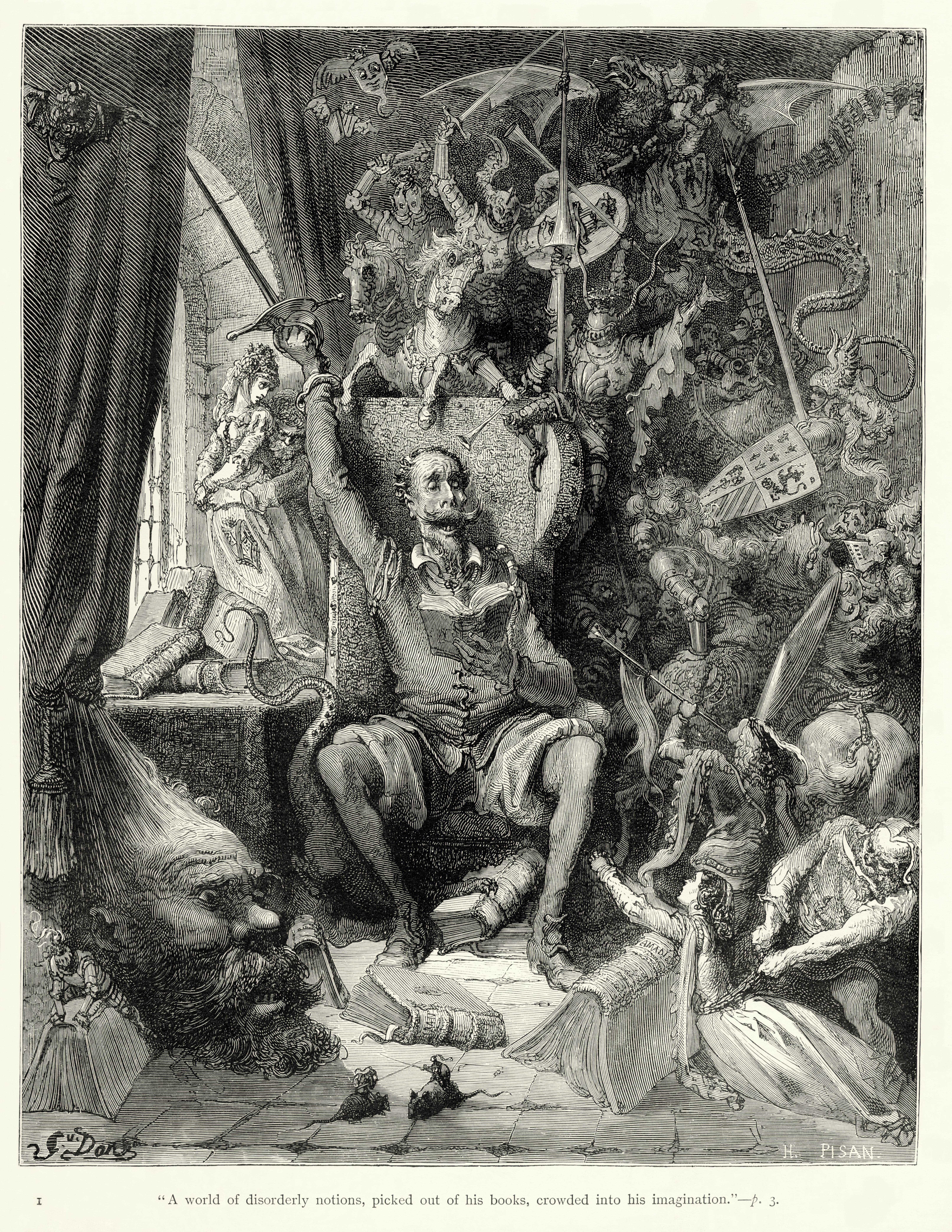 Plate I of Gustave Doré's illustrations to Miguel de Cervantes' Don Quixote. From Chapter I. The ordering of images in this edition is a little complex: There are numerous additional illustrations besides the numbered plates: This is the order of images up to the end of Chapter 1. For convenience, I shall provide my own overall numbering, to allow some semblance of order. 1. Image:Gustave Doré - Miguel de Cervantes - Don Quixote - Part 1 - Chapter 1 - Plate 1 "A world of disorderly notions, picked out of his books, crowded into his imagination".jpg 2. Image:Gustave Doré - Miguel de Cervantes - Don Quixote - Part 1 - 1st supplemental image for the Preface - Miguel de Cervantes swoops in on unsuspecting literature.jpg 3. Image:Gustave Doré - Miguel de Cervantes - Don Quixote - Part 1 - 2nd supplemental image for the Preface - Miguel de Cervantes with mask of Don Quixote.jpg 4. Image:Gustave Doré - Miguel de Cervantes - Don Quixote - Part 1 - 1st supplemental image for Chapter 1 - Alternative version of Plate I.jpg 5. Image:Gustave Doré - Miguel de Cervantes - Don Quixote - Part 1 - 2nd supplemental image for Chapter 1 - Don Quixote repairs and polishes his grandfather's armour, Rozinate in the background.jpg